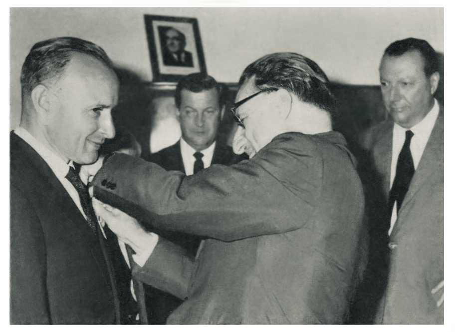 Original cleaned press clipping of President Giovanni Leone awarding Lawrence E. Lotito with a knighthood - May 25, 1963 - The decoration came from Vittorio Pugliese, Italian Undersecretary of Defense-Aeronautics in recognition of his meteorological studies in coordinating the transfer of airline operations to the new Fiumicino airport and Italy's transition to the jet age.